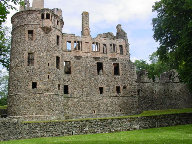 Huntly Castle, view from near main entrance.